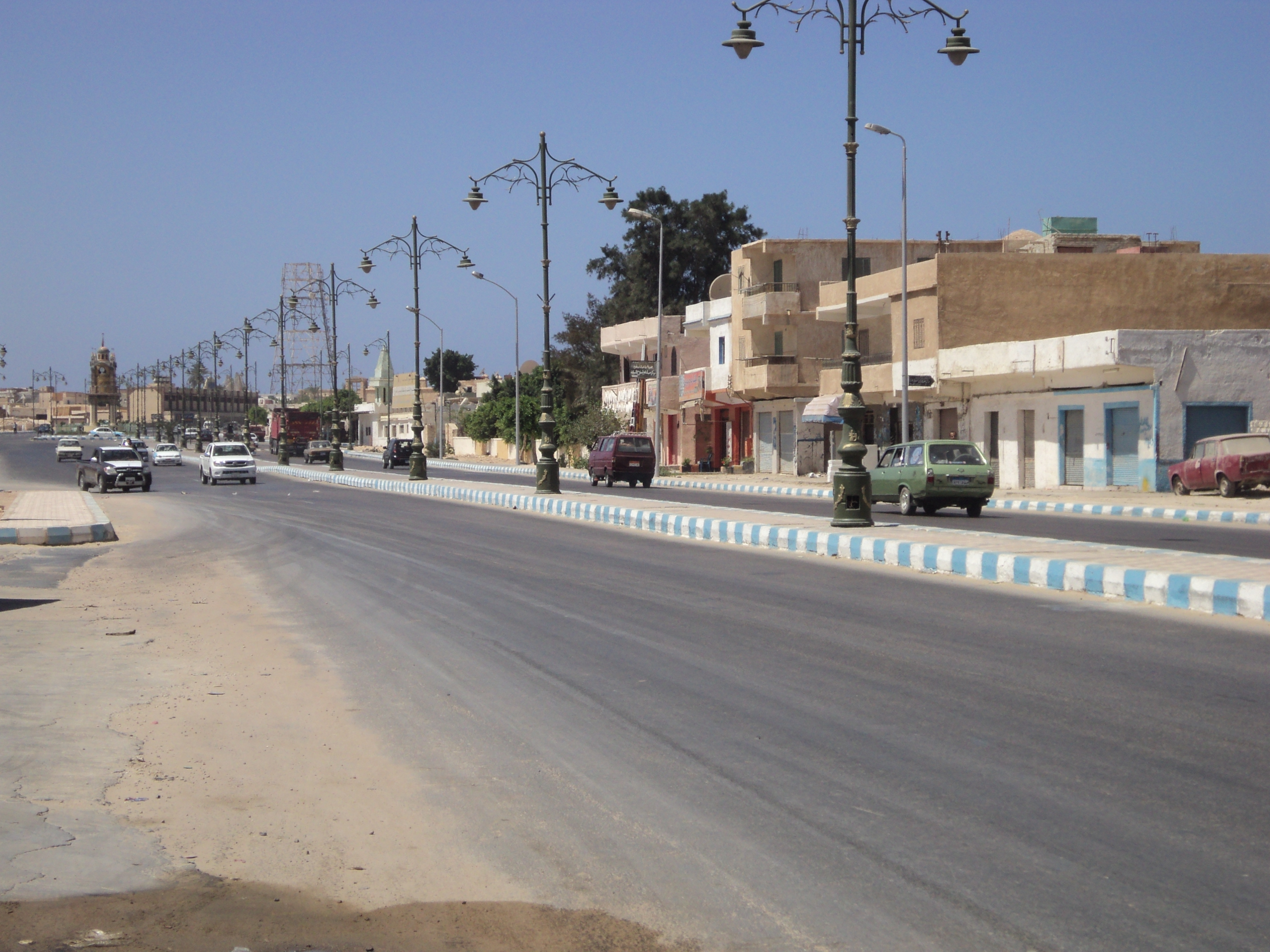 The Egyptian city of Mersa Matruh.